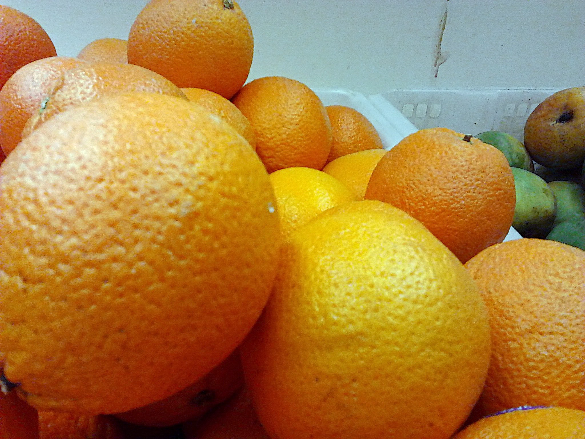 Photoed using Samsung Wave 525.